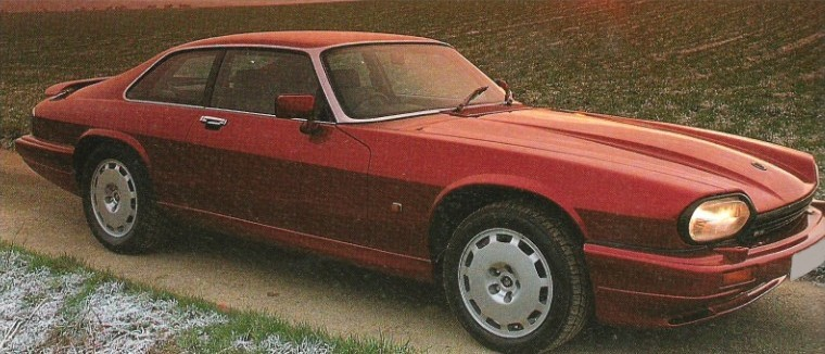 Jaguar XJS Coupé 1991 in Glasgow, Schottland